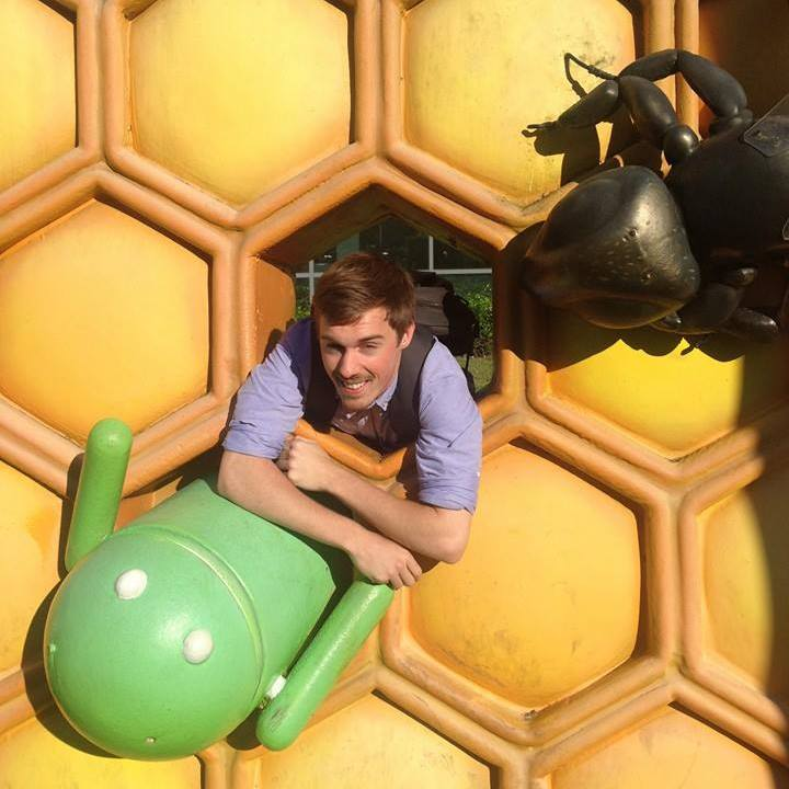 A picture of me at Google's android statues